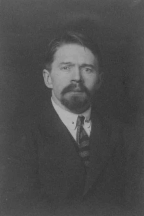 Photograph of the Finnish politician Herman Hurmevaara (1886–1938).